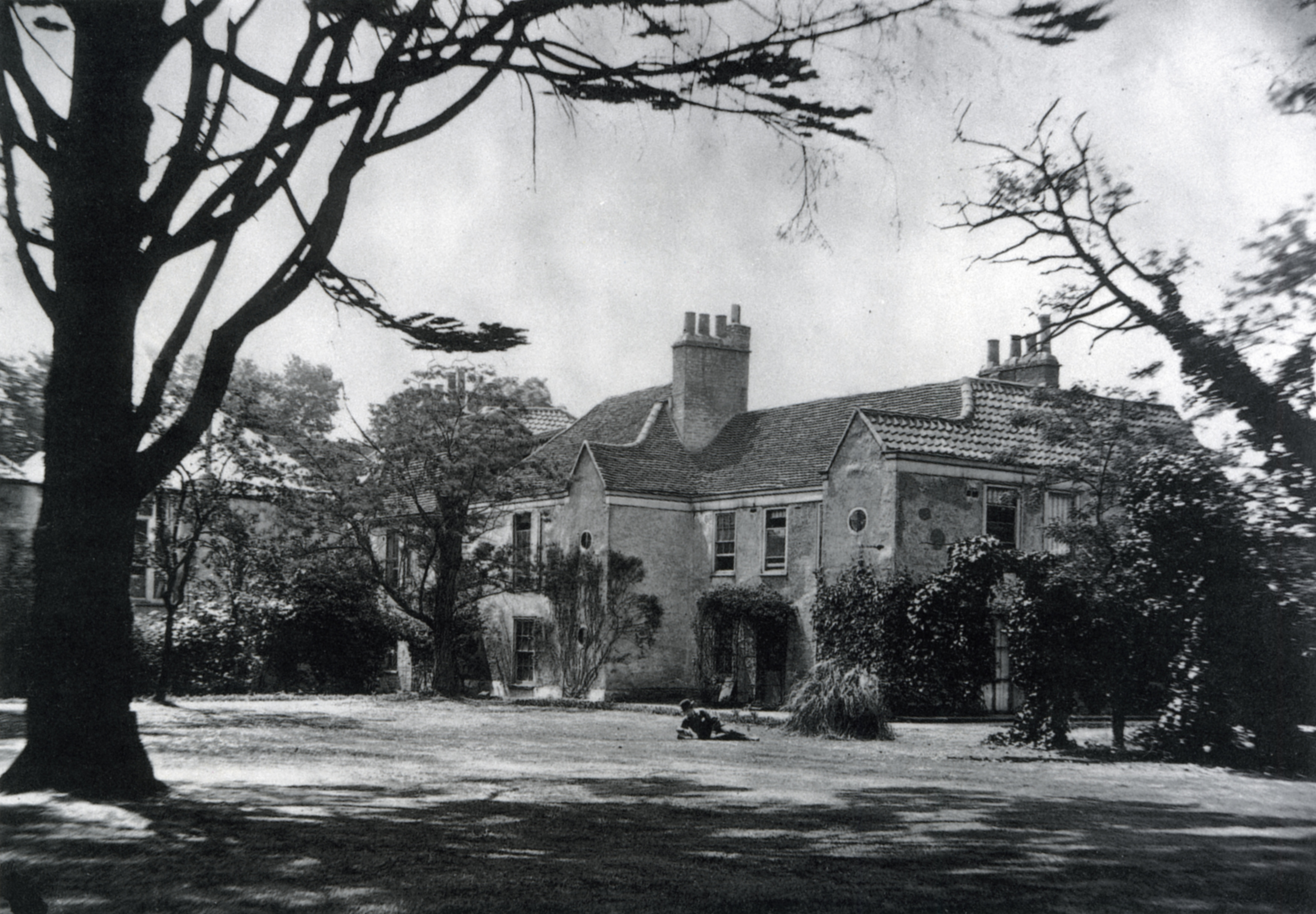 Little Holland House, a 19th-century home and studio of G.F. Watts, in which a variety of celebrities such as artists, scientists, and politicians gathered.